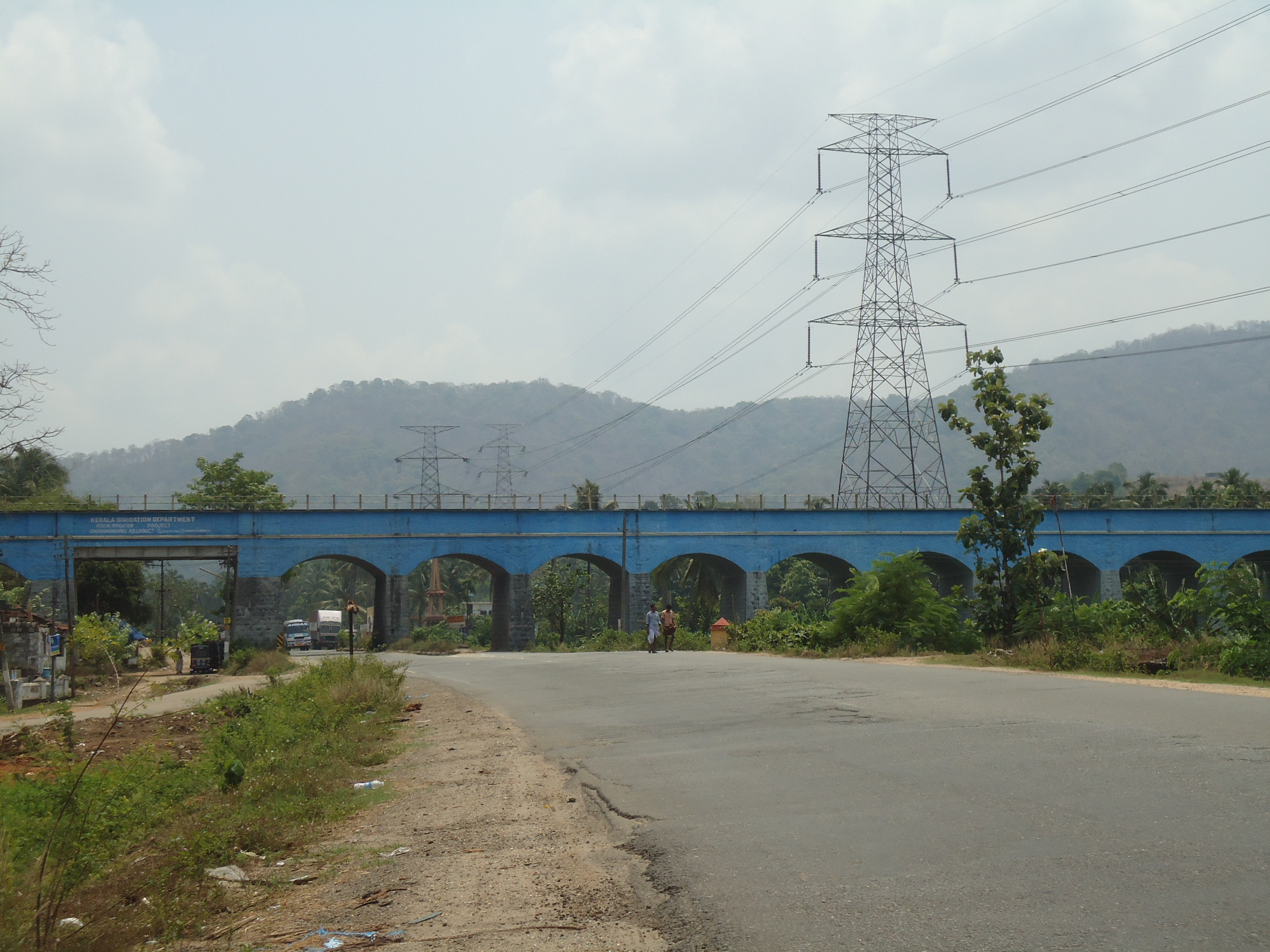 Peechi Irrigation project Aquaduct.